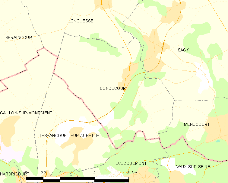 Map of French municipality Condécourt